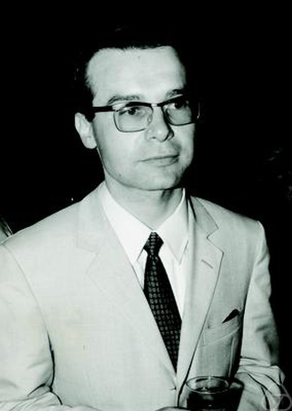 Ulrich Güntzer, Nizza 1970